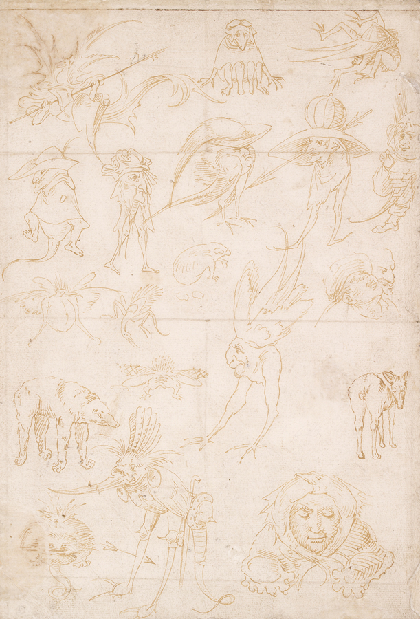 Reverse of a two-sided drawing. For the front, see File:BoschStudiesOfMonsters(OtherSide).jpg.